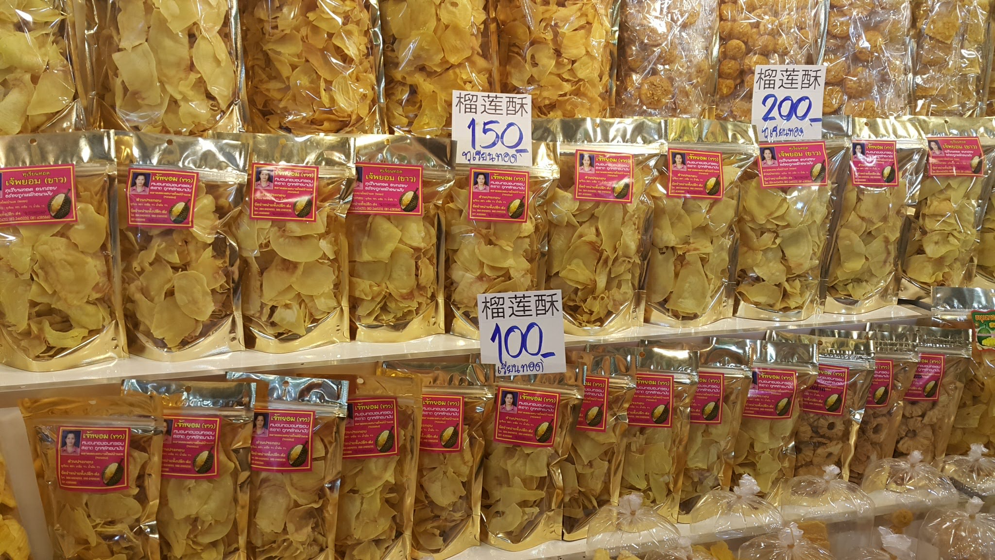 Crispy deep-fried durians